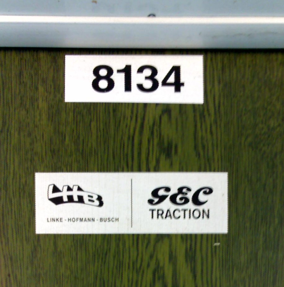 Based on Image:18-03-07_1157.jpg, vertical perspective corrected.